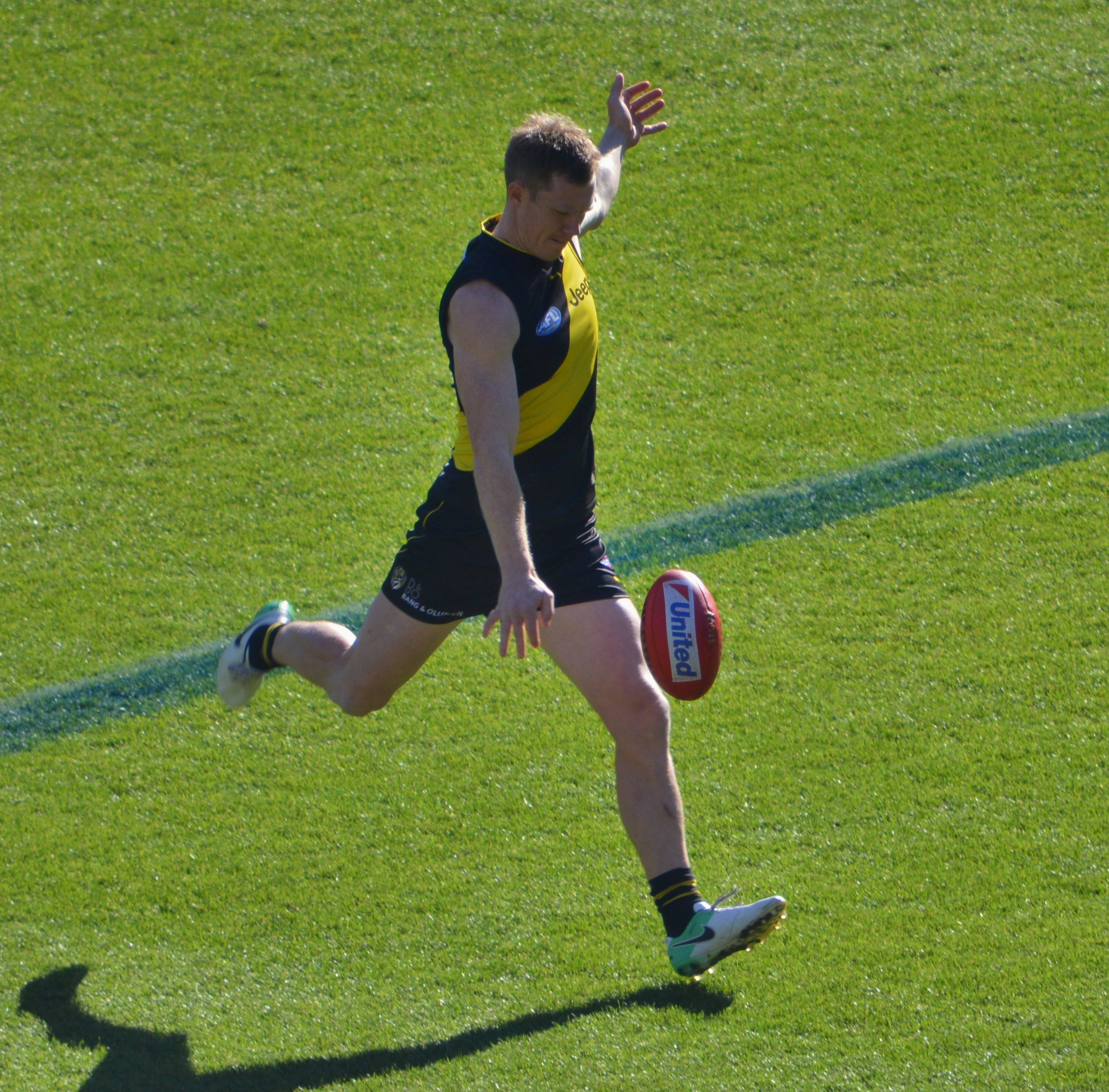 Jack Riewoldt warming up prior to the round 10, 2018 AFL match between Richmond and St Kilda